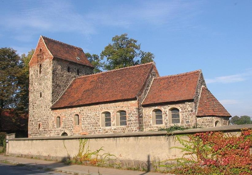 Stonechurch Lübnitz, built in the beginning13th century. The village Lübnitz is a part of the town Bad Belzig in the district Potsdam-Mittelmark, state Brandenburg, Germany. The village appertains to the nature park Naturpark Hoher Fläming.